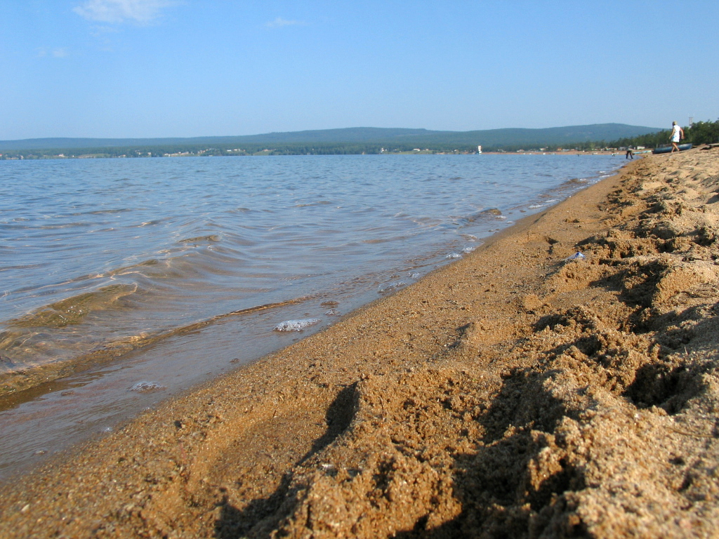 Arakhley Lake, Zabaykalsky Krai